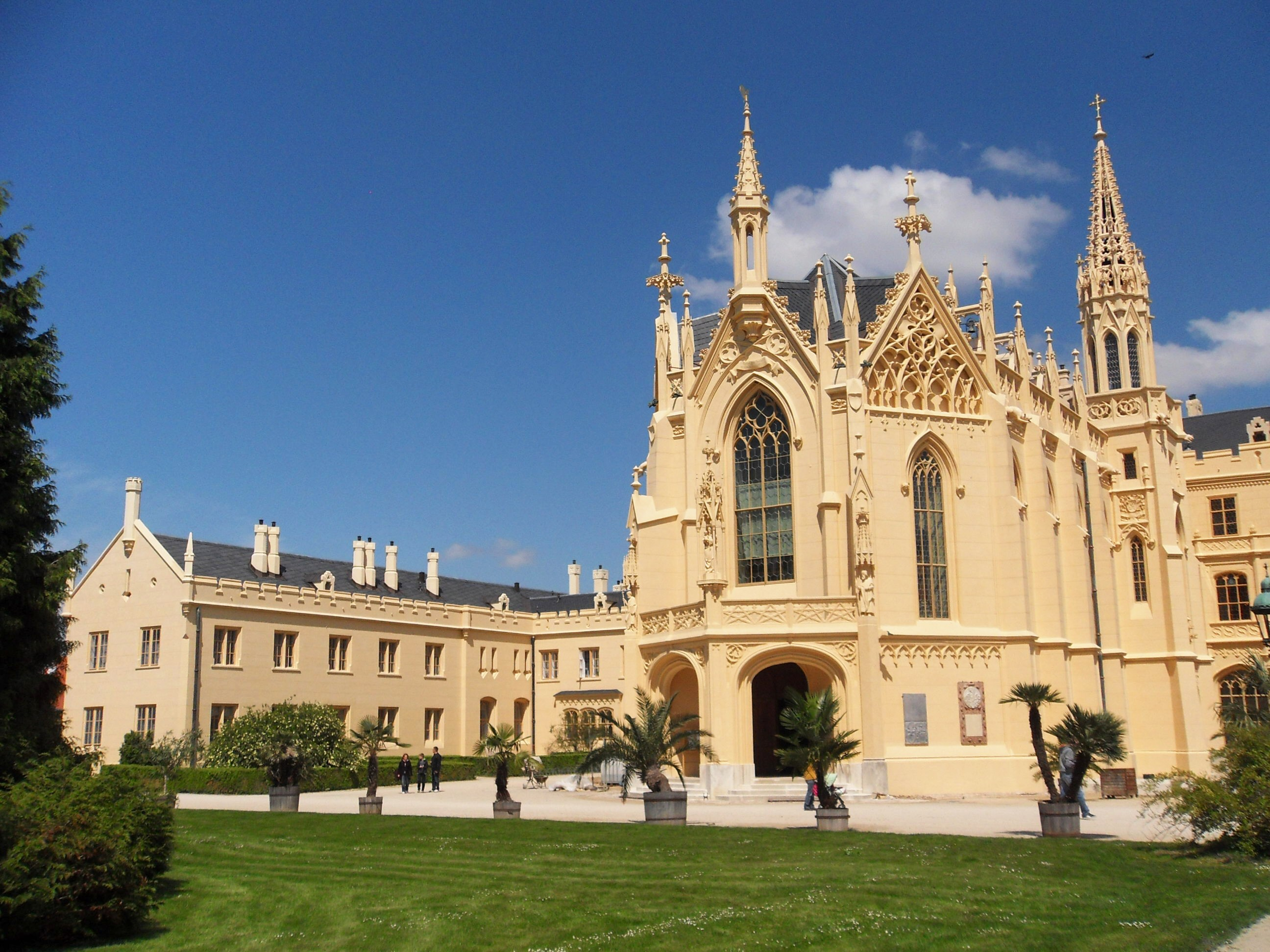 Lednice castle, Lednice, Břeclav district, Czech Republic